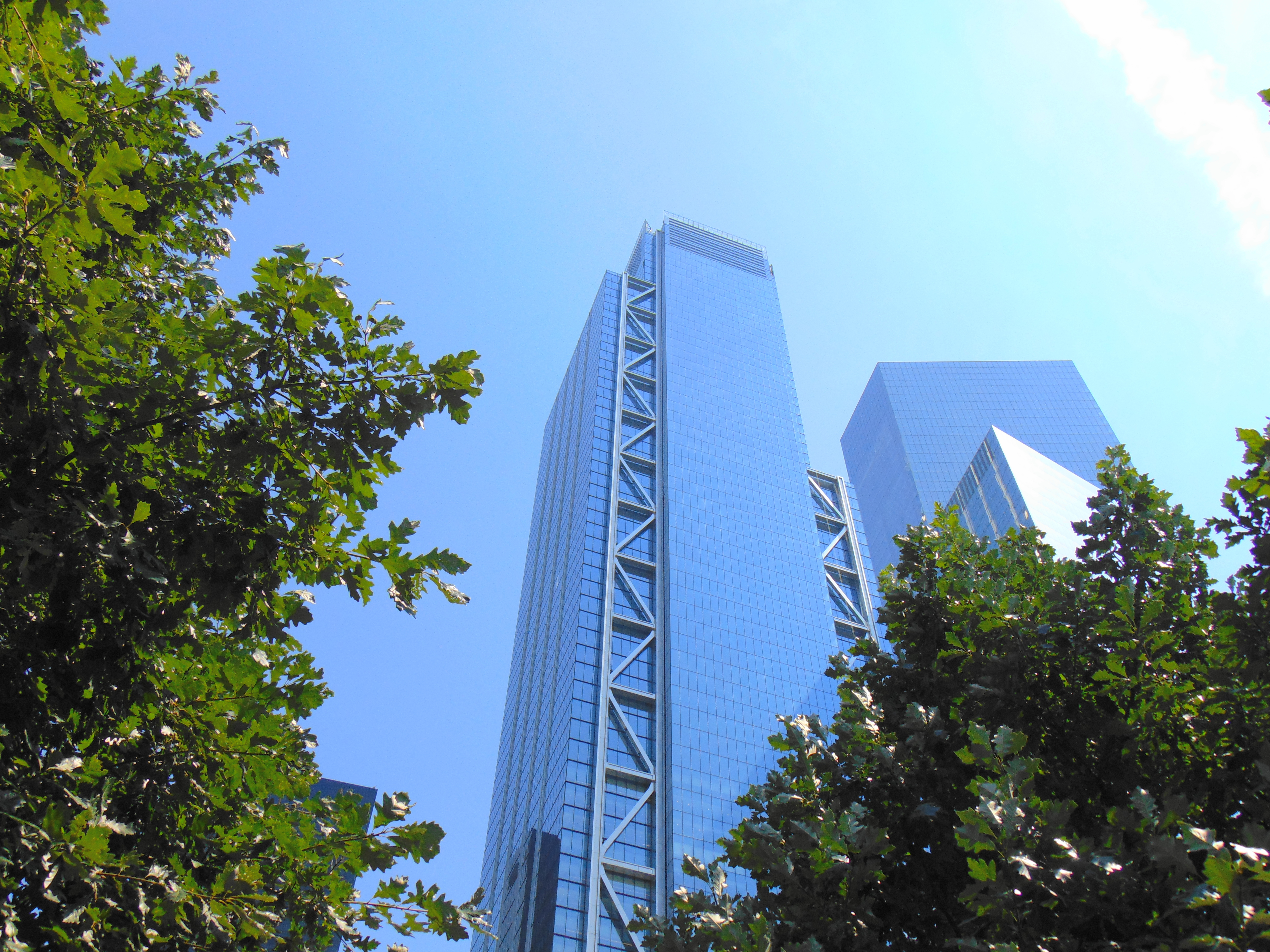 The Three World Trade Center in August 2018 after being completed. This building is located in the new WTC site in Lower Manhattan, New York. The Four World Trade Center can be seen to the right of the 3 WTC.